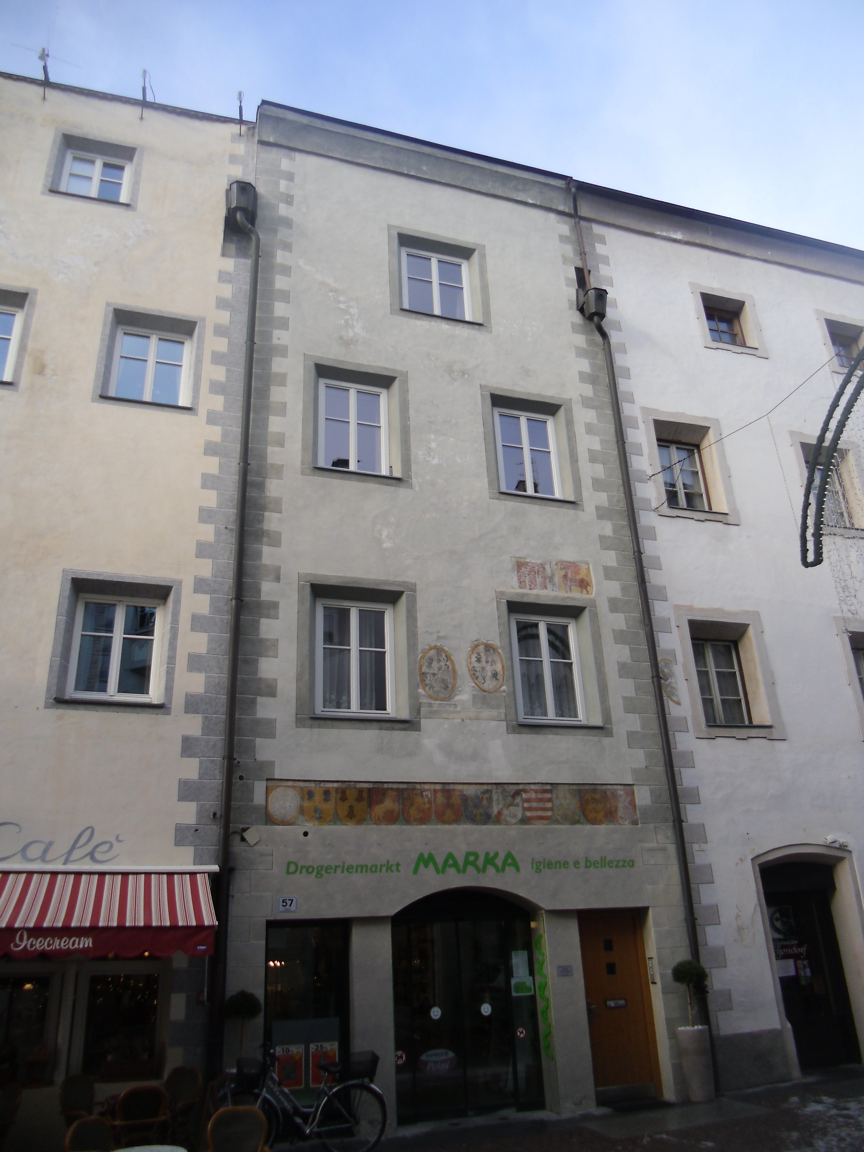 Stadtgasse 57